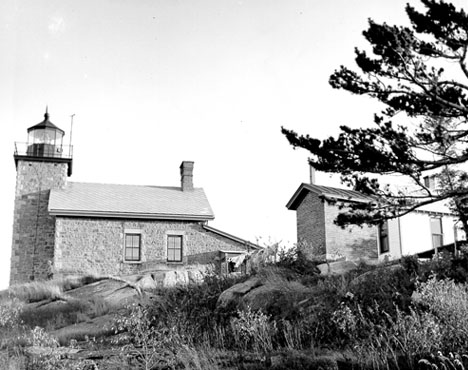 Huron Island Lighthouse, Lake Superior